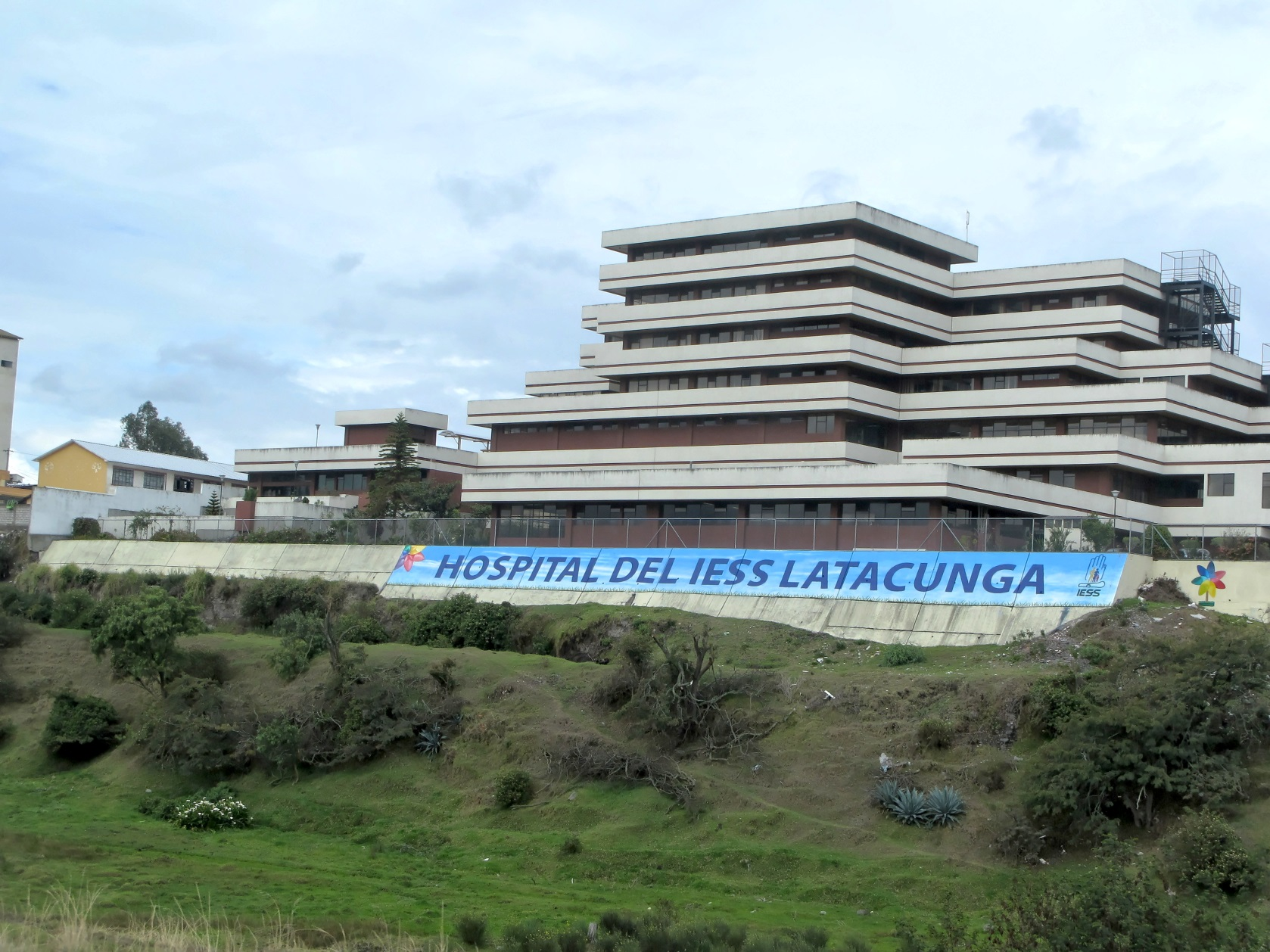 City of Latacunga, Hospital IESS Latacunga